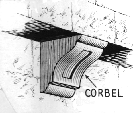 b/w line art of corbel